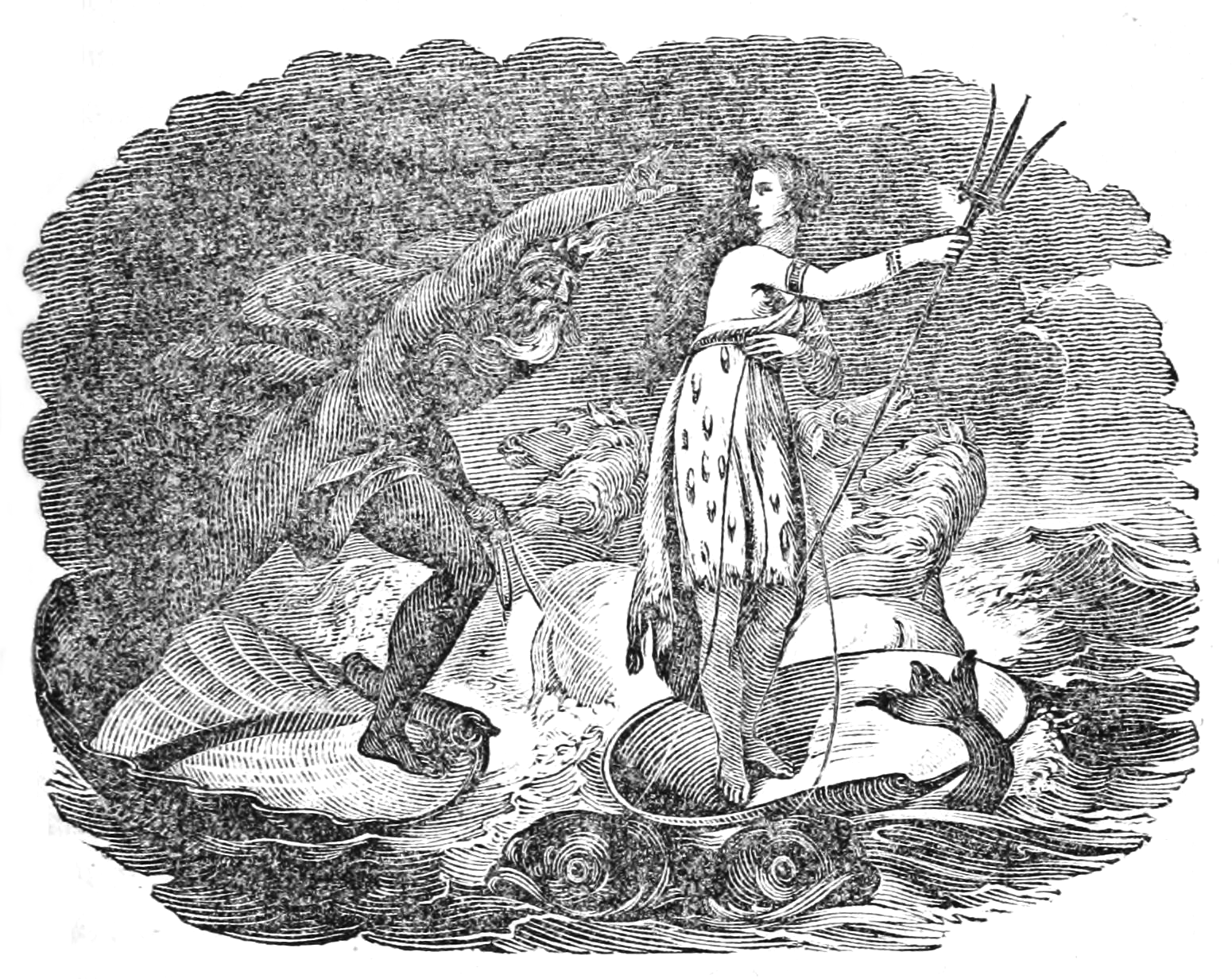 “This vignette, cut in wood by Anderson, from a design by Sully, represents Columbia Seizing the trident of Neptune.”